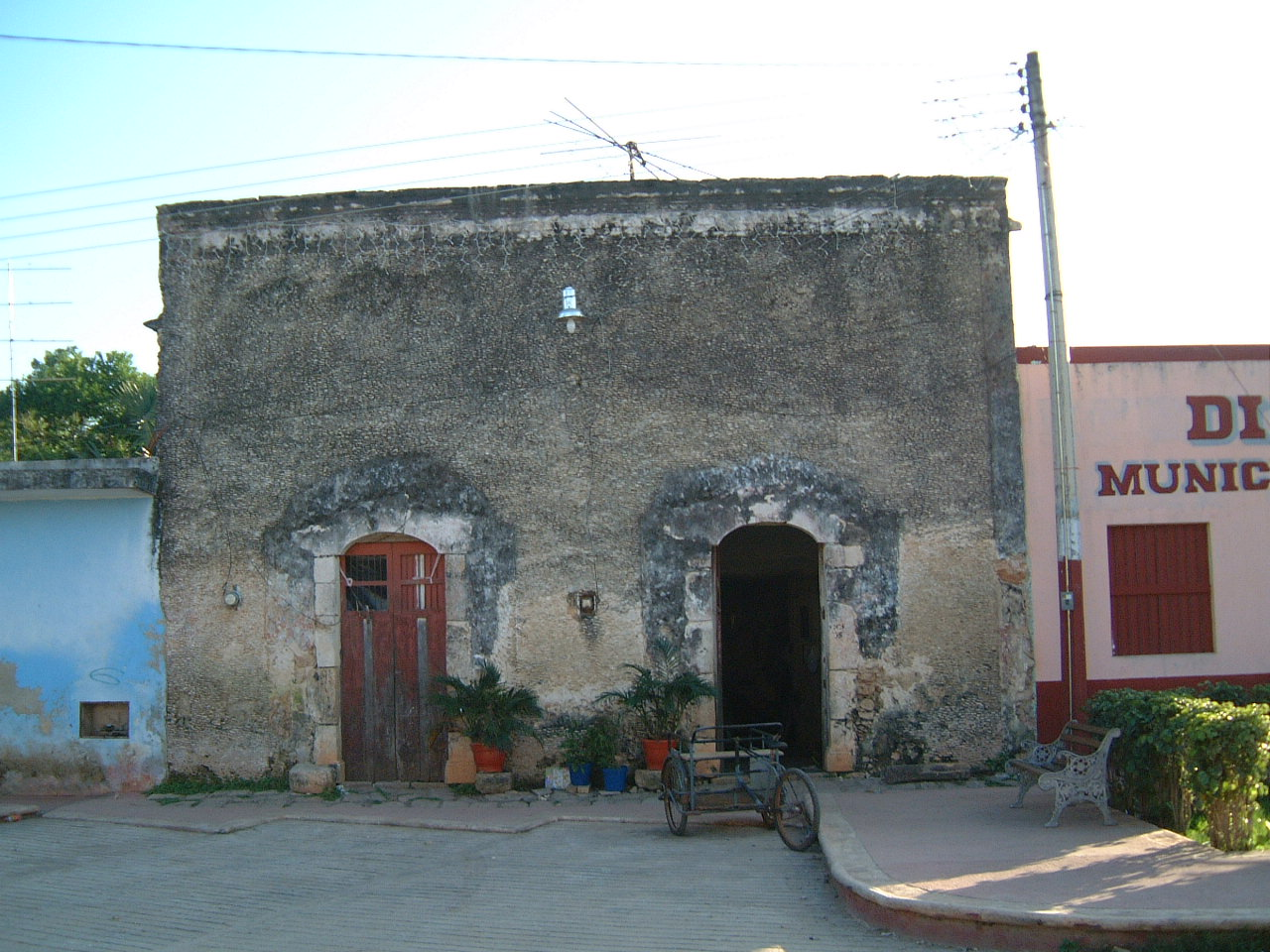 House on main square Maní Yucatan Mexico